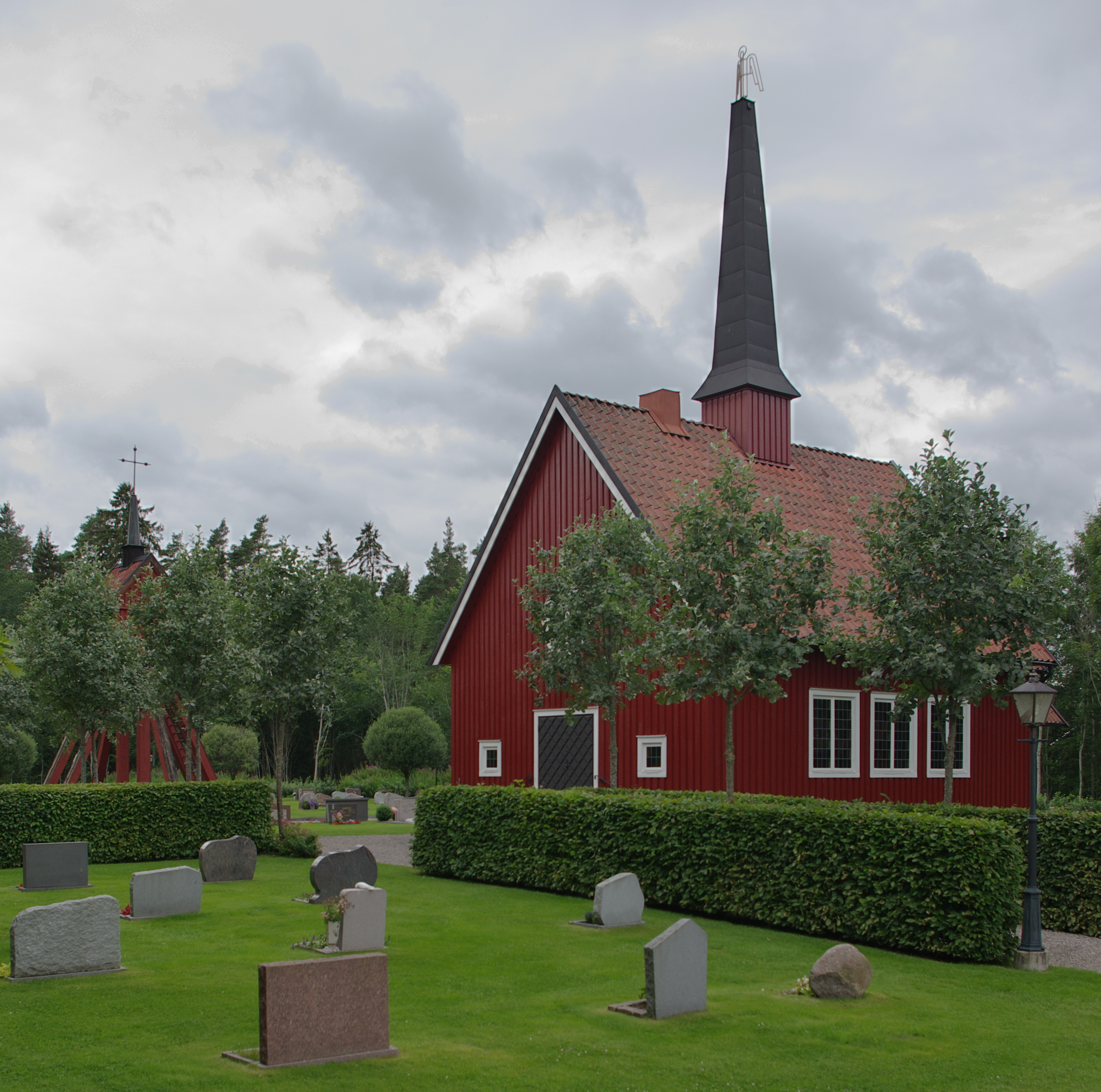 Fiskebäcks kapell (swedish: Fiskebäck chapel), Västergötland, Sweden.